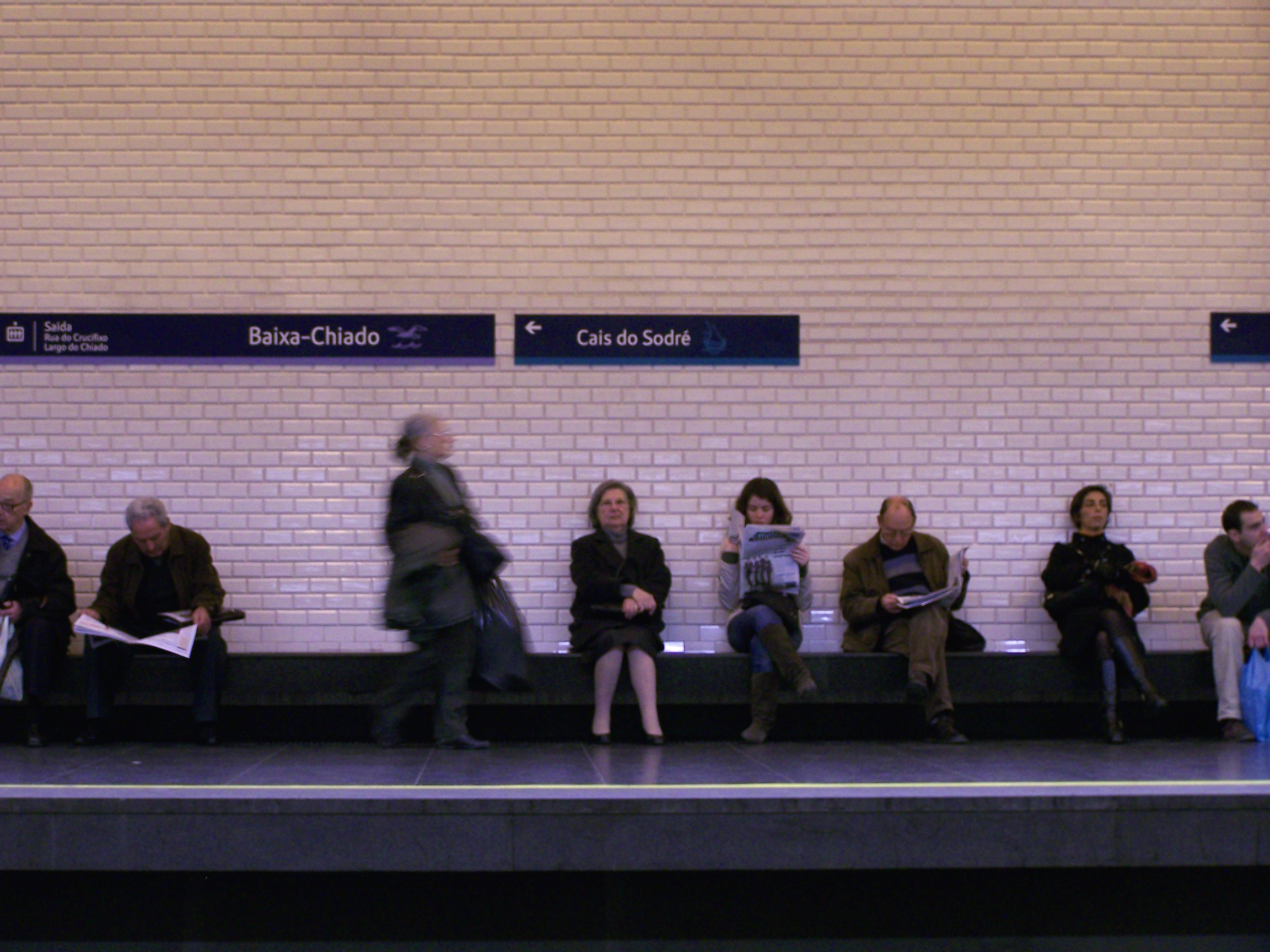 people waiting at Lisbon's underground station Baixa-Chiado, Lisbon, Portugal